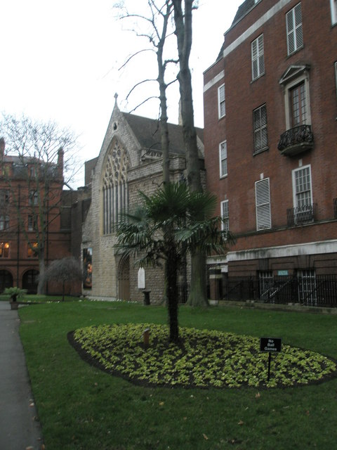 Flowerbed approaching The Immaculate Conception, Farm Street